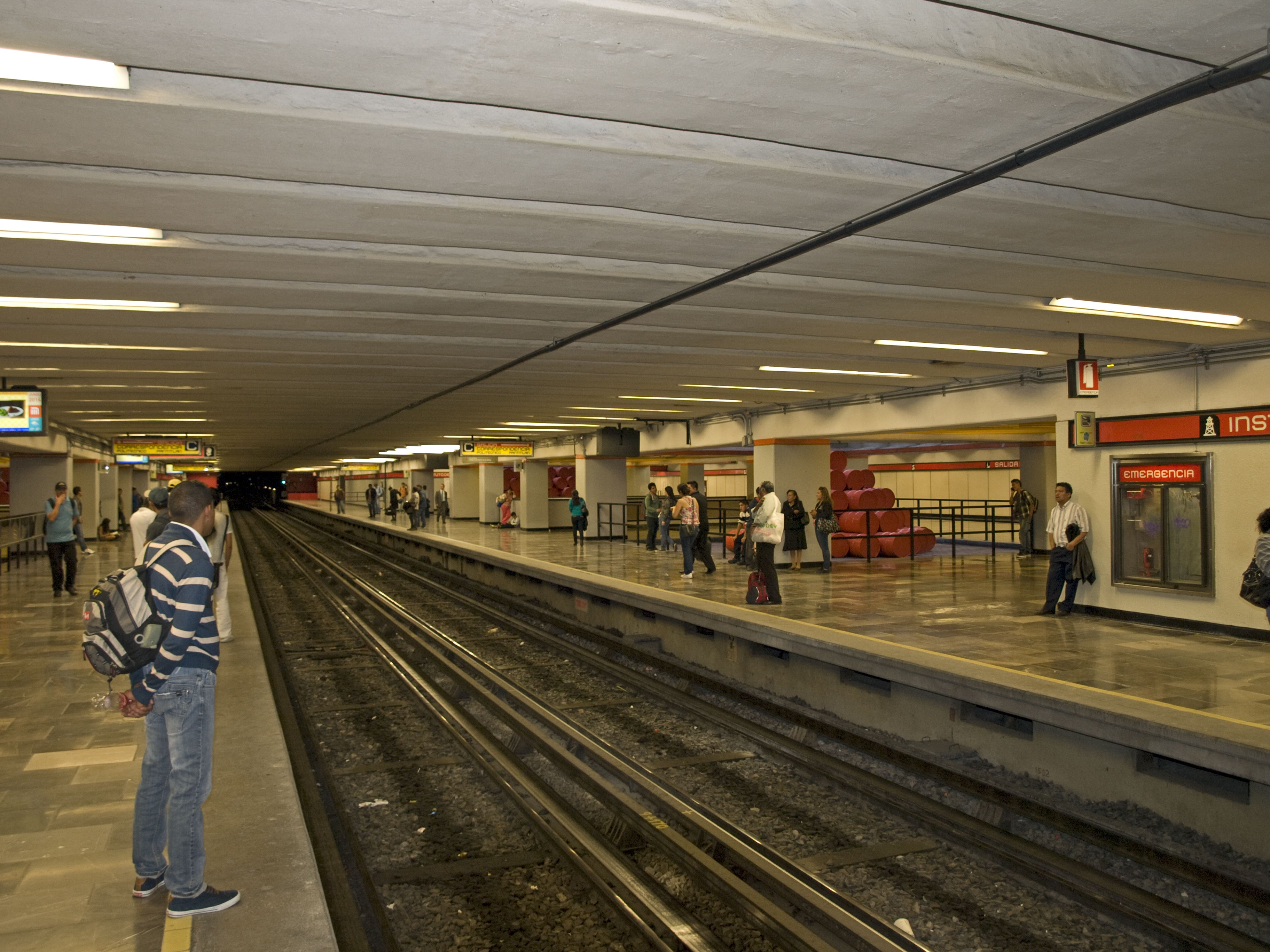 Platforms, Metro Instituto del Petróleo, Line 6